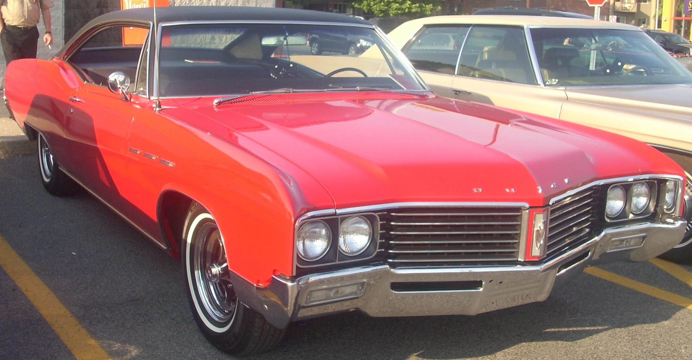 1967 Buick LeSabre photographed in Montreal, Quebec, Canada at A&W St-Léonard.